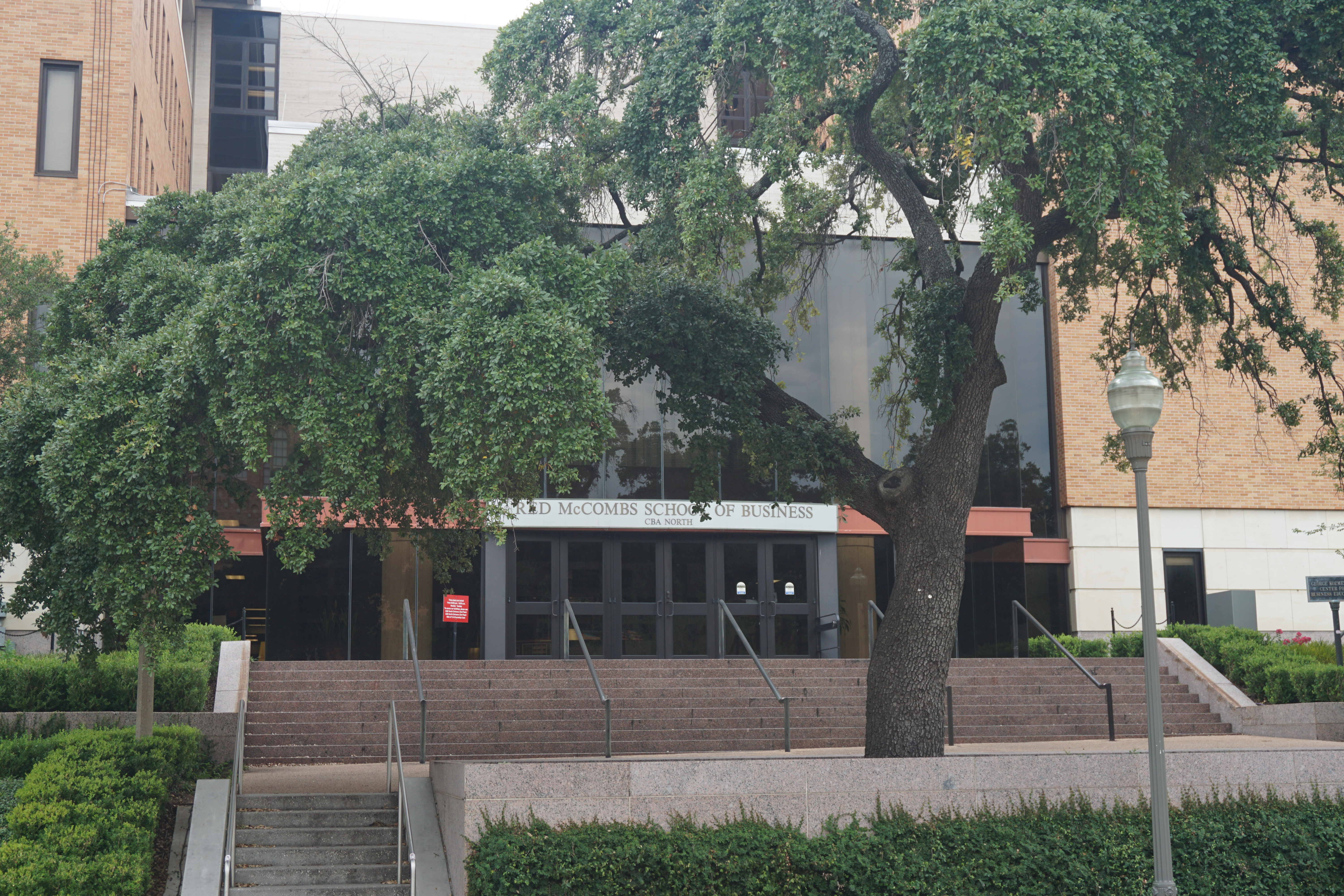 The College of Business Administration building on the campus of the University of Texas at Austin in Austin, Texas (United States).